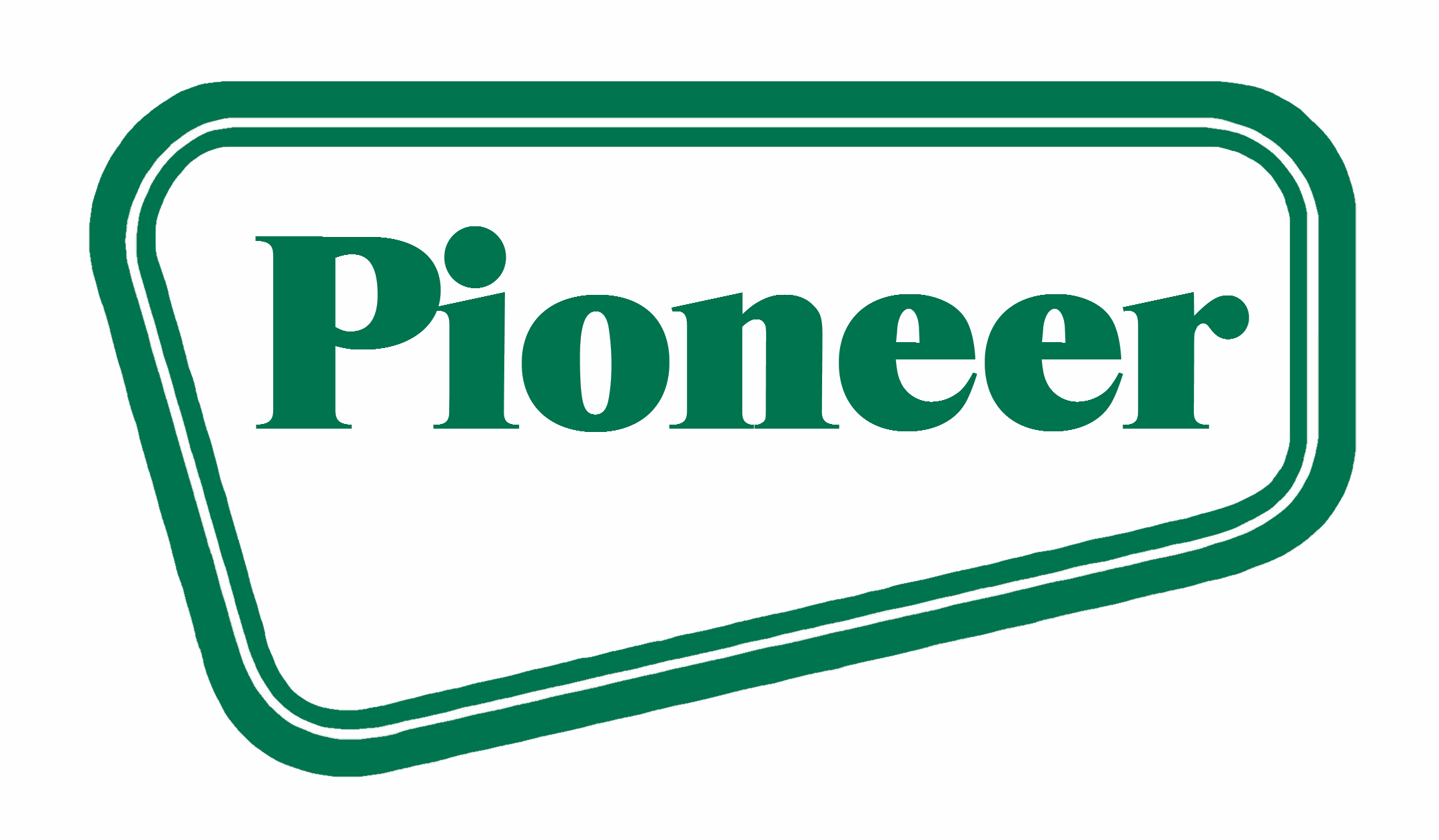 Pioneer Concrete Logo Remastered